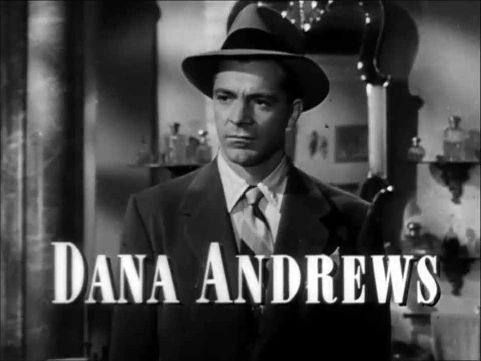 Cropped screenshot of Dana Andrews from the trailer for the film Laura.